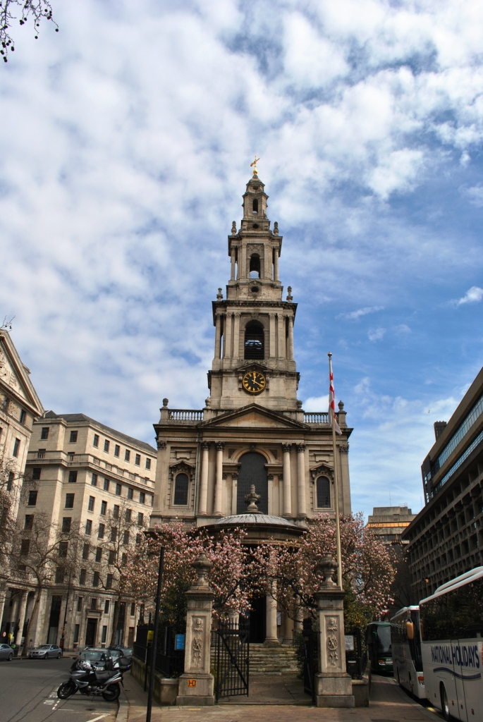 Church of St Mary le Strand